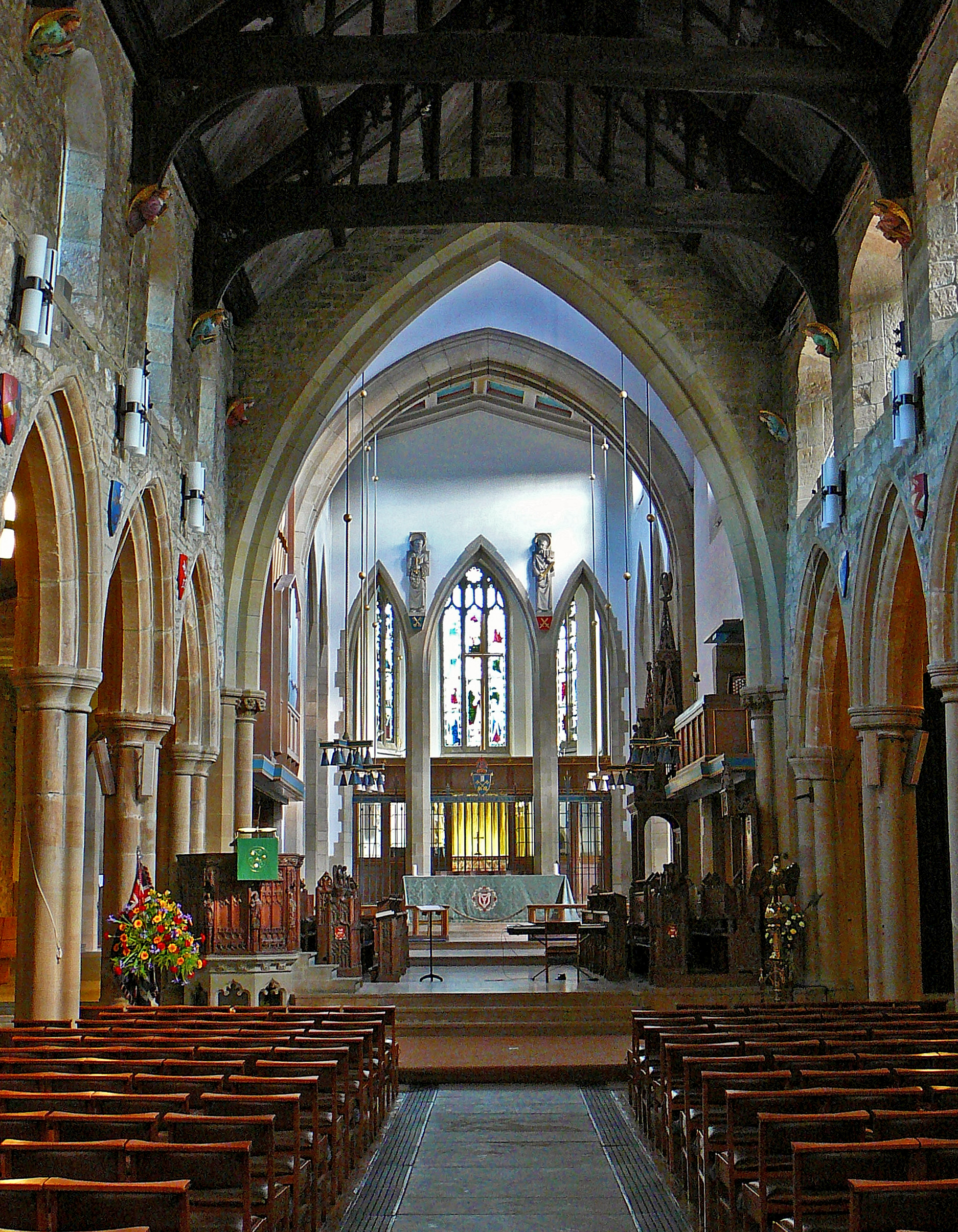 The nave of Bradford Cathedral